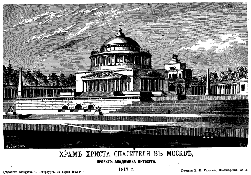 A 1872 engraving of Alexander Vitberg's design for the Cathedral of Christ the Saviour in Moscow.